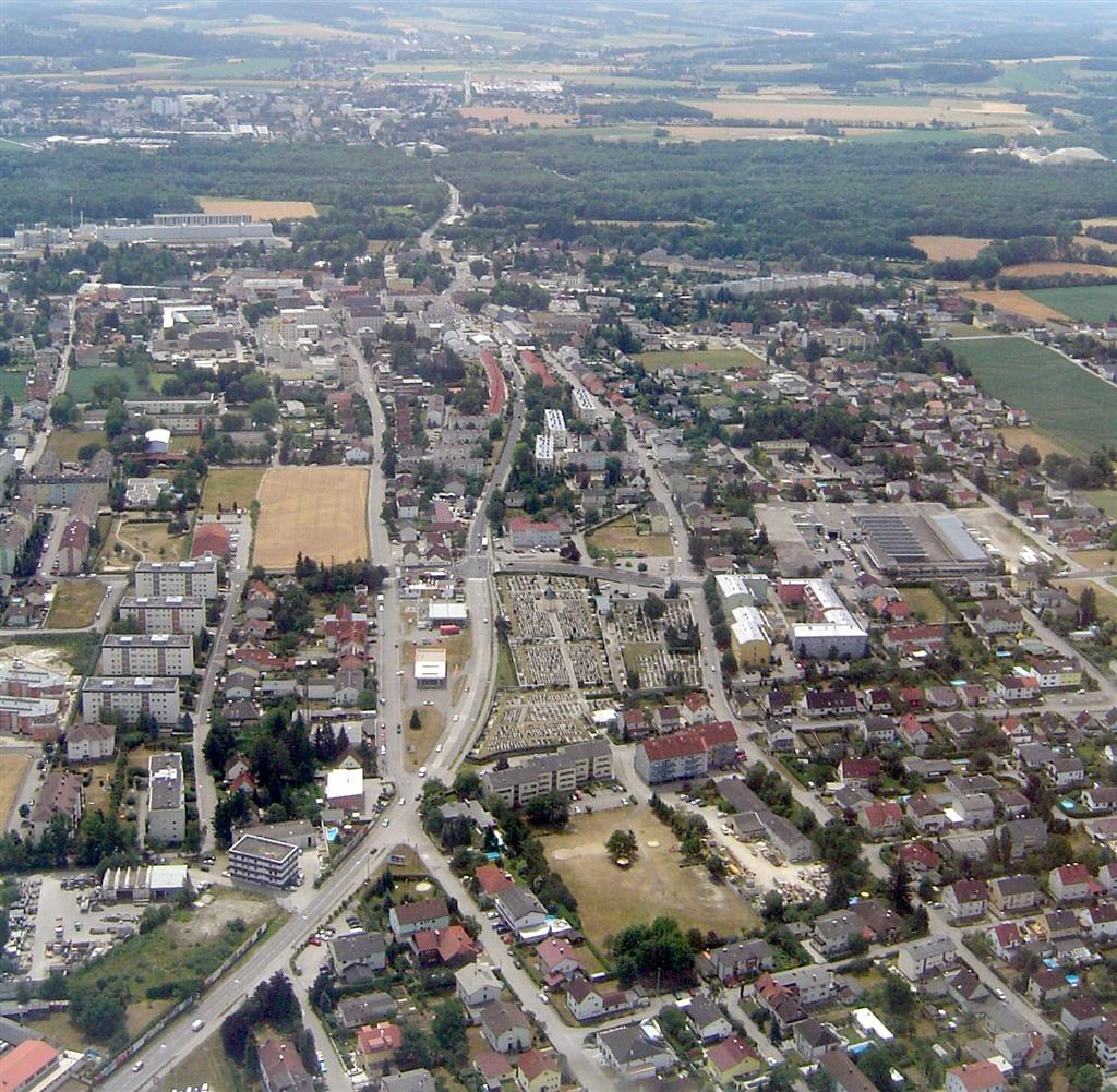 aerial view of Traun, Upper Austria, Austria